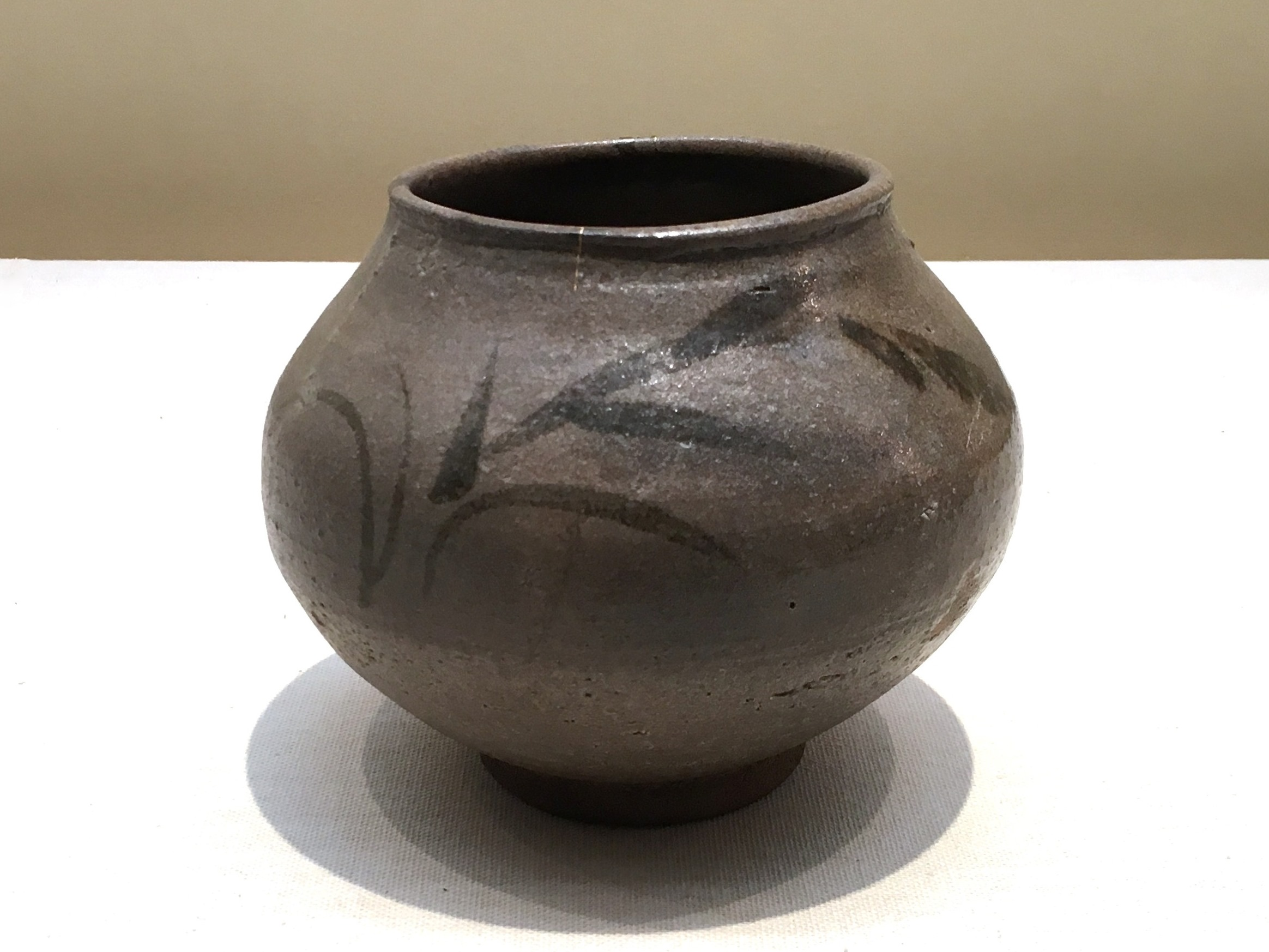 Fresh water container, reeds design. E-karatsu style, Karatsu ware. Momoyama period, early 17th century. Height: 15.5 cm Mouth Diameter: 11.9 cm Diameter: 19 cm Other: 8.8 cm (bottom diameter)